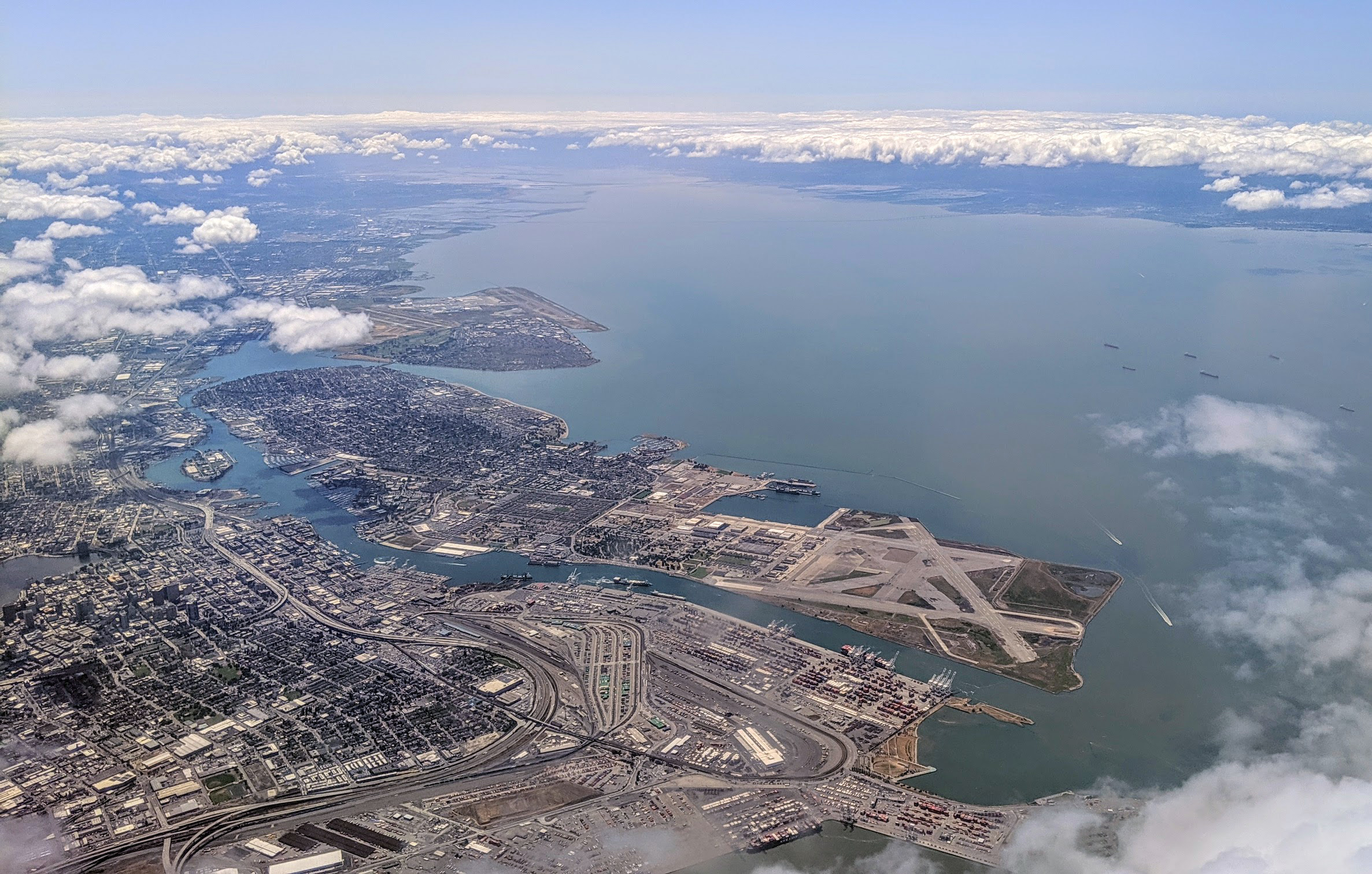 Aerial view from the northeast of the Port of Oakland and Alameda Island, Calfornia, with the old Alameda Naval Air Station runways prominent